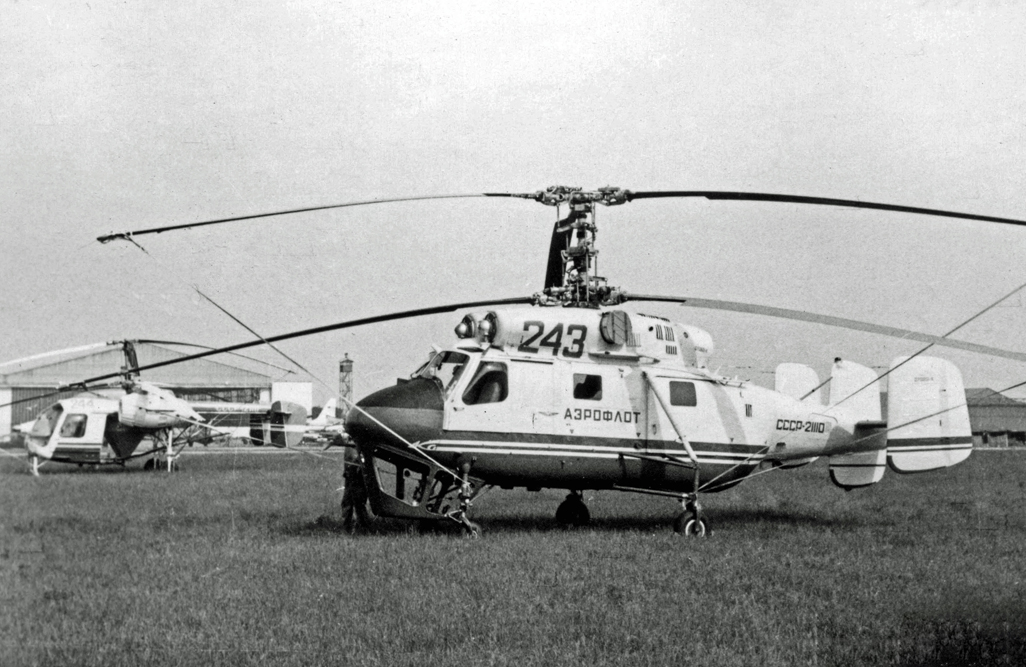 Kamov Ka-25K helicopter CCCP-21110 of Aeroflot at the 1967 Paris Air Salon